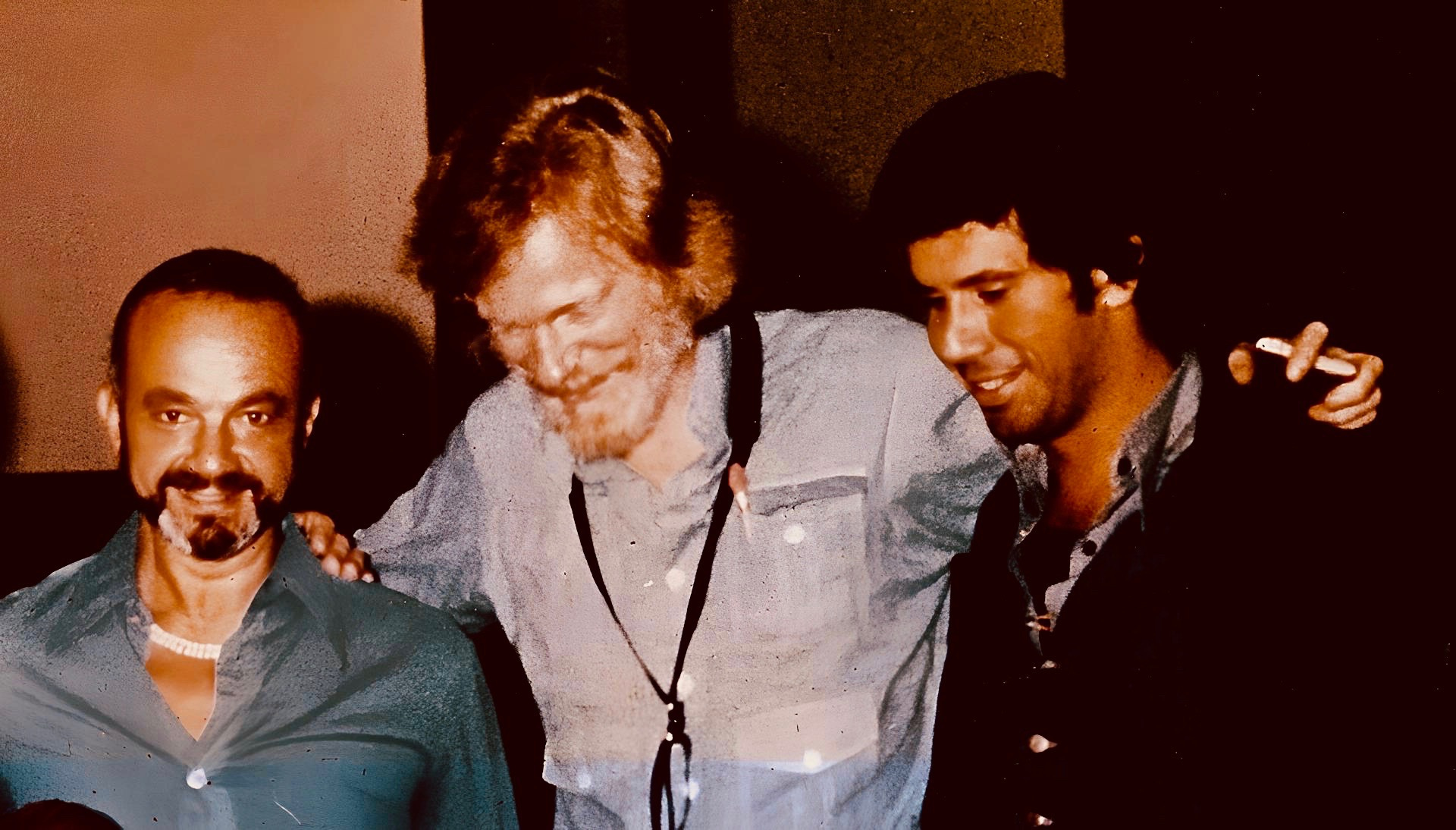 other_versions= This file has been extracted from another file: Summit-Reunion Cumbre personnel.jpg